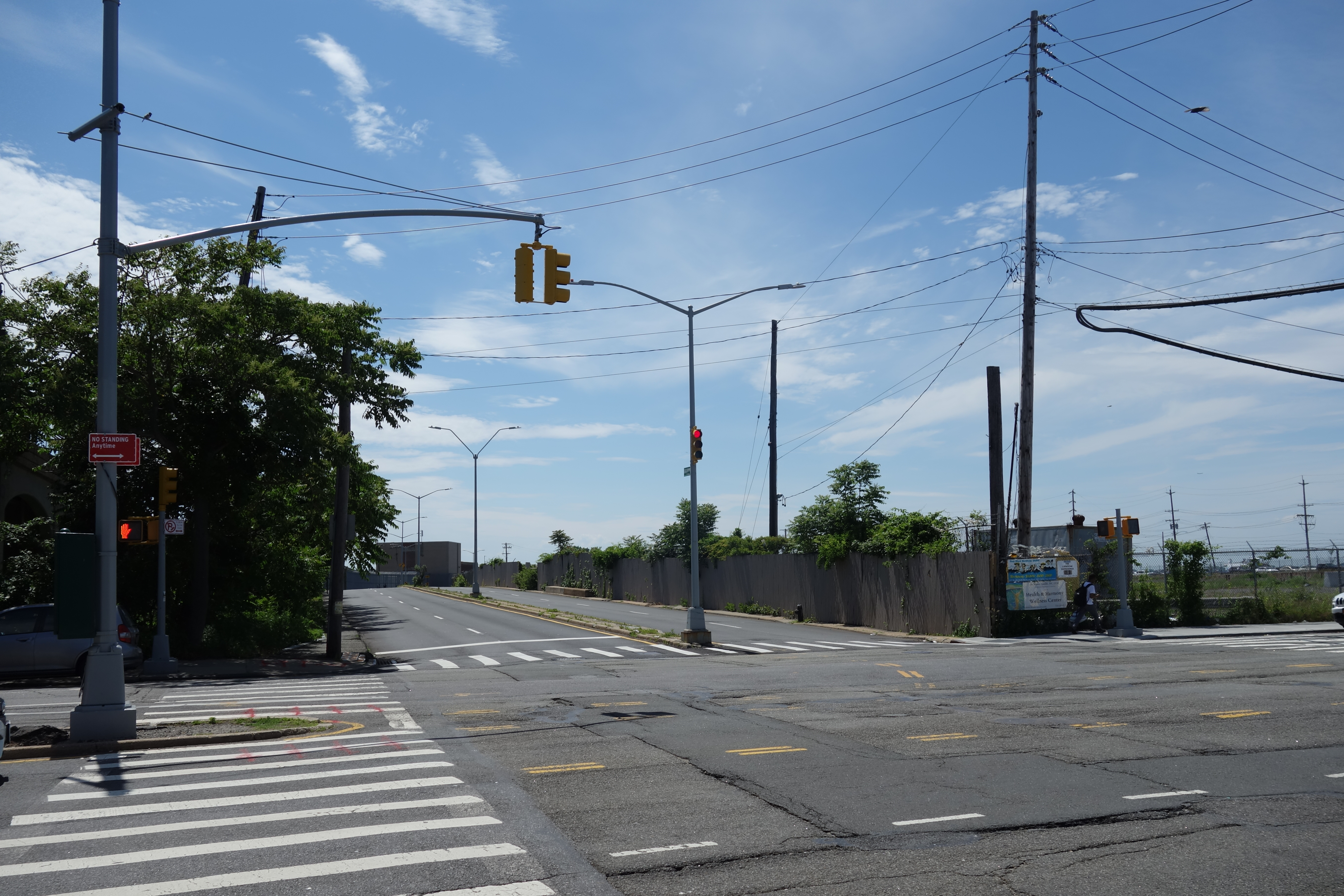 Looking west down the Rockaway Freeway at Beach 108th Street near the Beach 105th Street subway station in Seaside / Rockaway Beach, Queens. The freeway is notoriously dangerous, as it lacks sidewalks, and runs under the IND Rockaway Line subway's narrow rows of concrete beams for most of it's length. At this point, the freeway diverges from the railroad and curves north towards Beach Channel Drive. Edit: To the right is a former LILCO coal gasification plant.